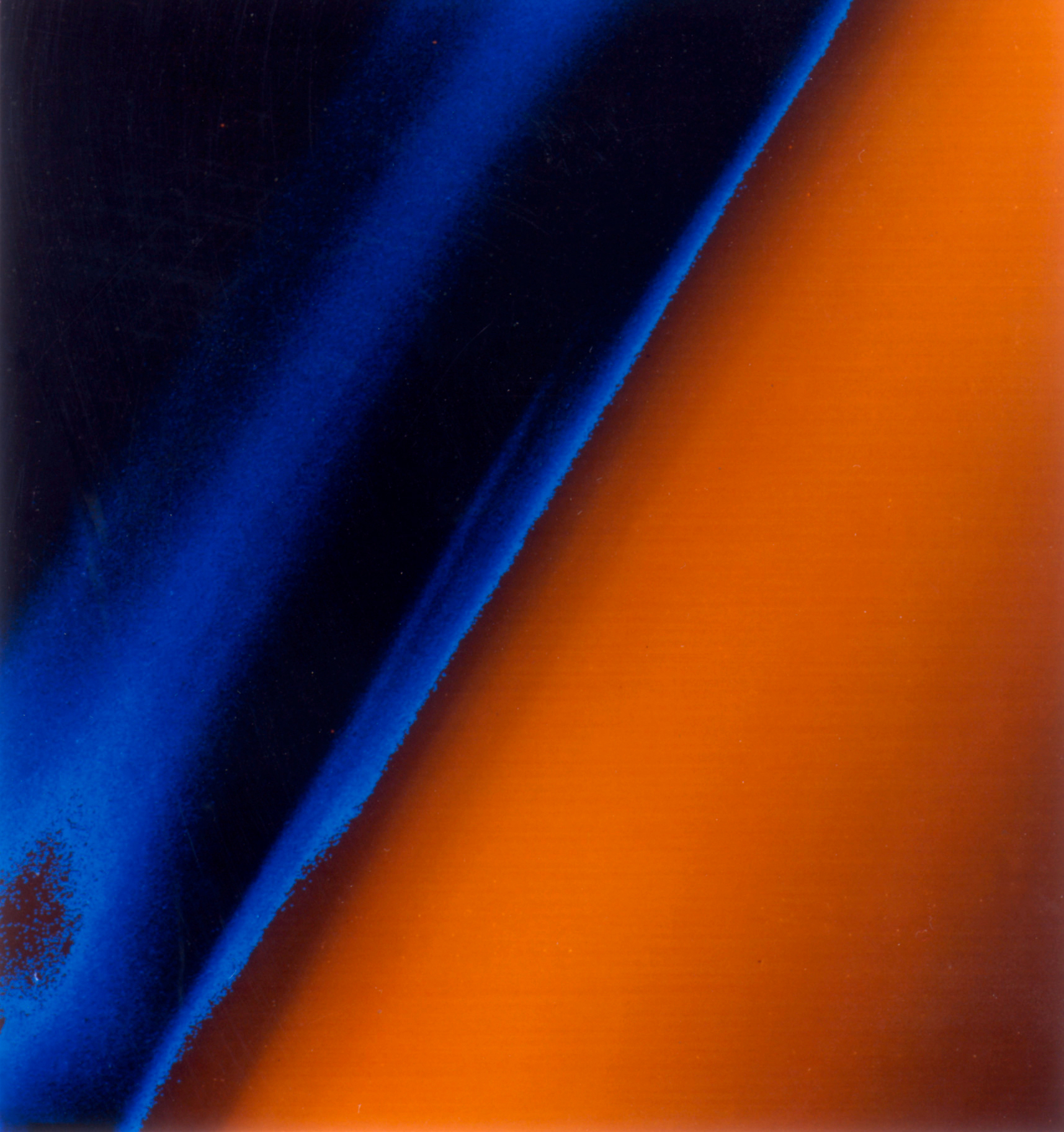 Layers of haze covering Saturn's satellite Titan are seen in this image taken by Voyager 1 on Nov. 12, 1980 at a range of 22,000 kilometers (13,700 miles). The colors are false and are used to show details of the haze that covers Titan. The upper level of the thick aerosol above the satellite's limb appears orange. The divisions in the haze occur at altitudes of 200, 375 and 500 kilometers (124, 233 and 310 miles) above the limb of the moon. JPL manages the Voyager project for NASA's Office of Space Science.